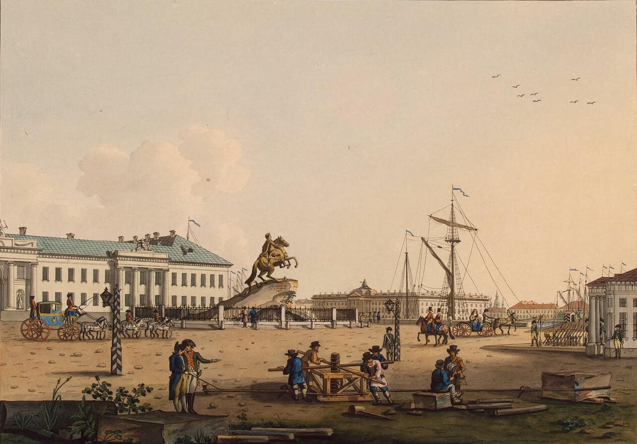 Saint Petersburg (Russia), Senate Square. In the center, the Monument to Peter the Great, The Bronze Horseman, (1768—78, designed by E.-M. Falconet and М. Collot, who executed Peter the Great's head). The pedestal of an enormous granite boulder and the grille around the monument (the latter existed until 1903) were made in accordance with Y. Velten's design. The inauguration of the monument was on August 7, 1782. To the left, the building of the Senate. To the right, over the Neva, the Academy of Arts (by A. Kokorinov and J.-B. Vallin de la Mothe) and the buildings of the Vasilyevsky Island. In the foreground, to the right, a portion of the Hauptwache's (Guardhouse) portico close to the Admiralty.